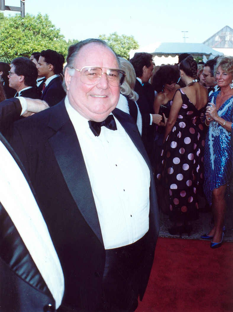 Pat Corley on the red carpet at the 1990 Emmy Awards 9/16/90